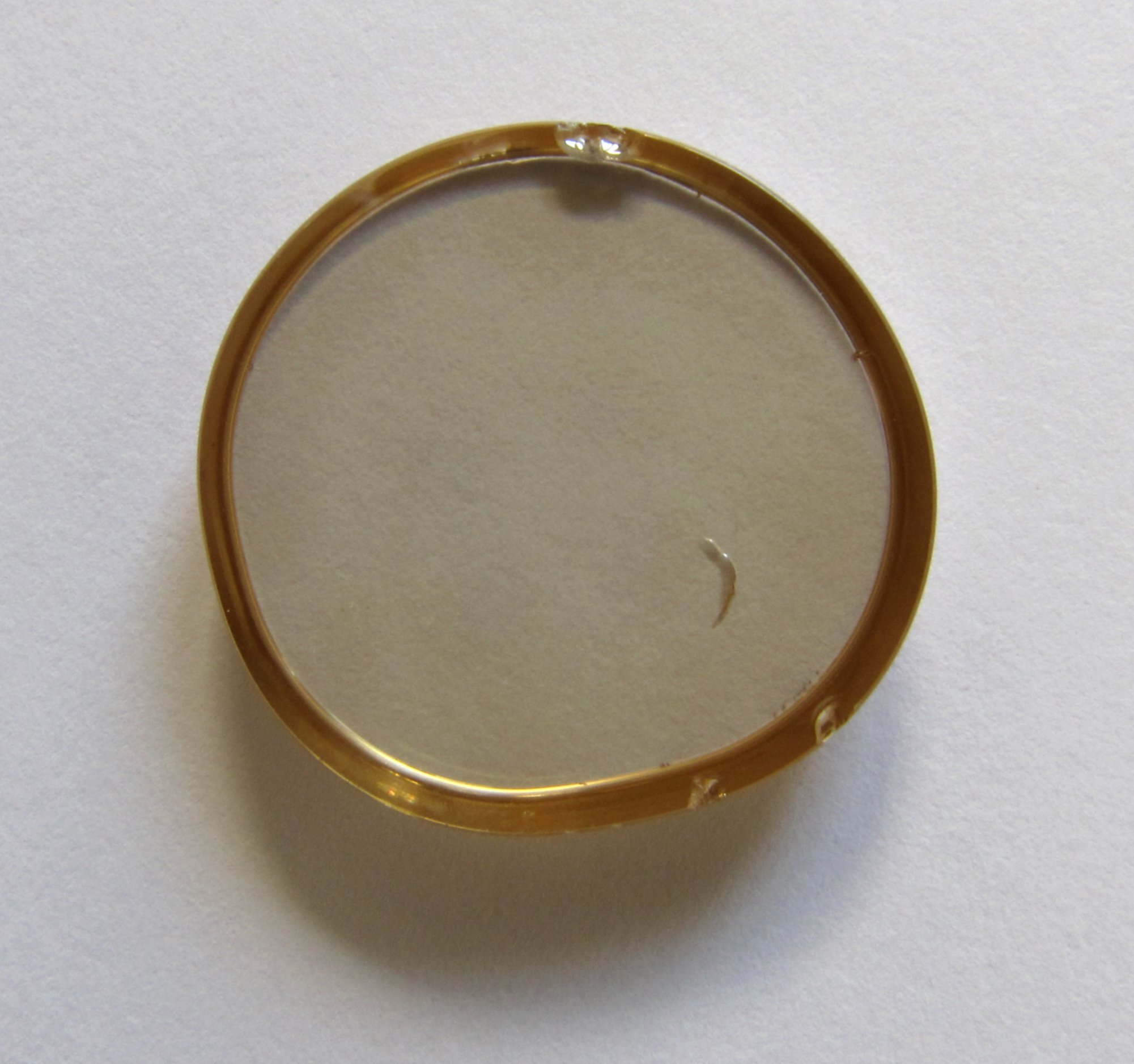 25mm diameter, 4mm thick disk of a rutile crystal, grown by Verneuil-technique